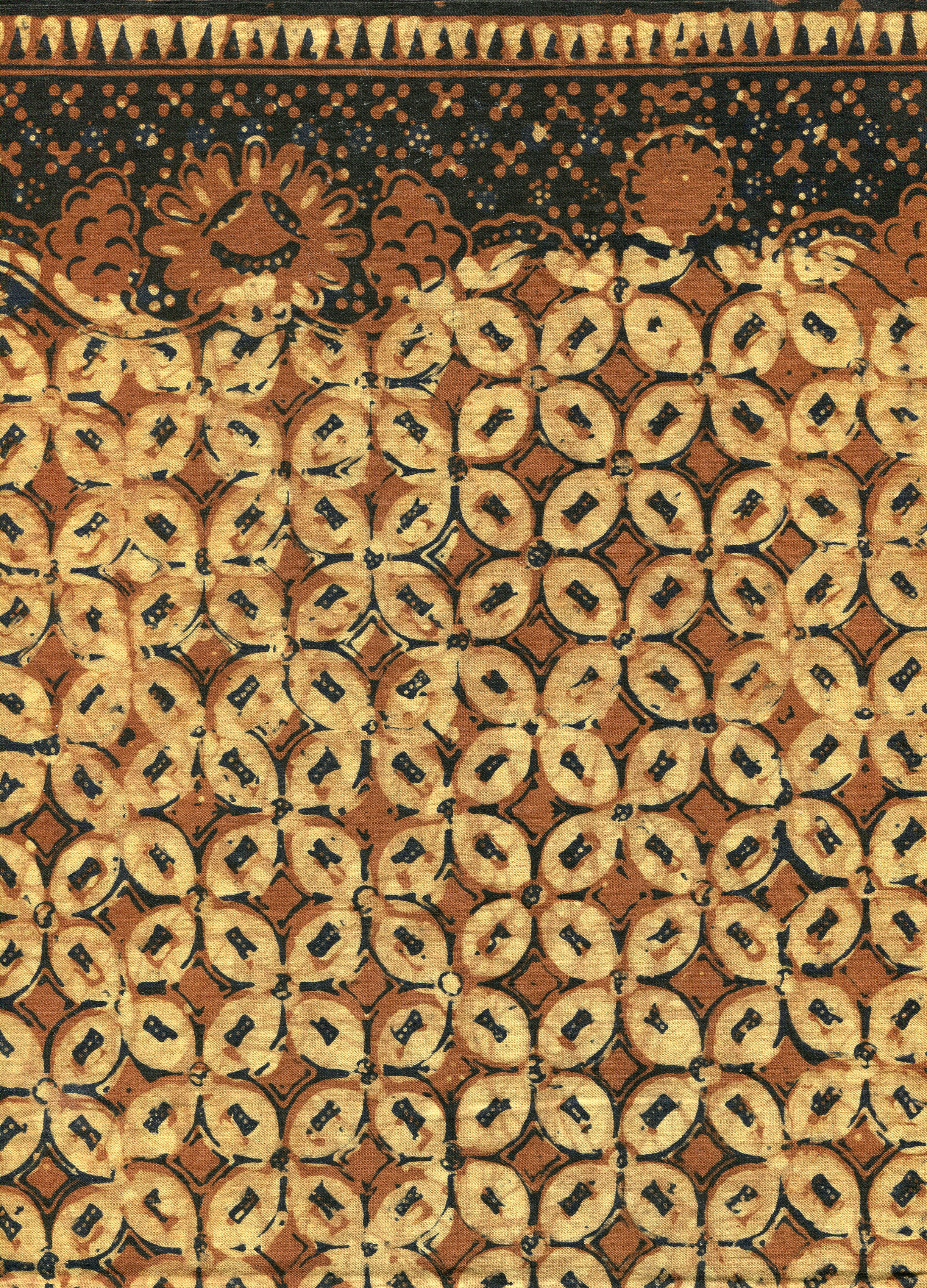 Coffee Bean (Kawung) Batik sarong, Indonesia